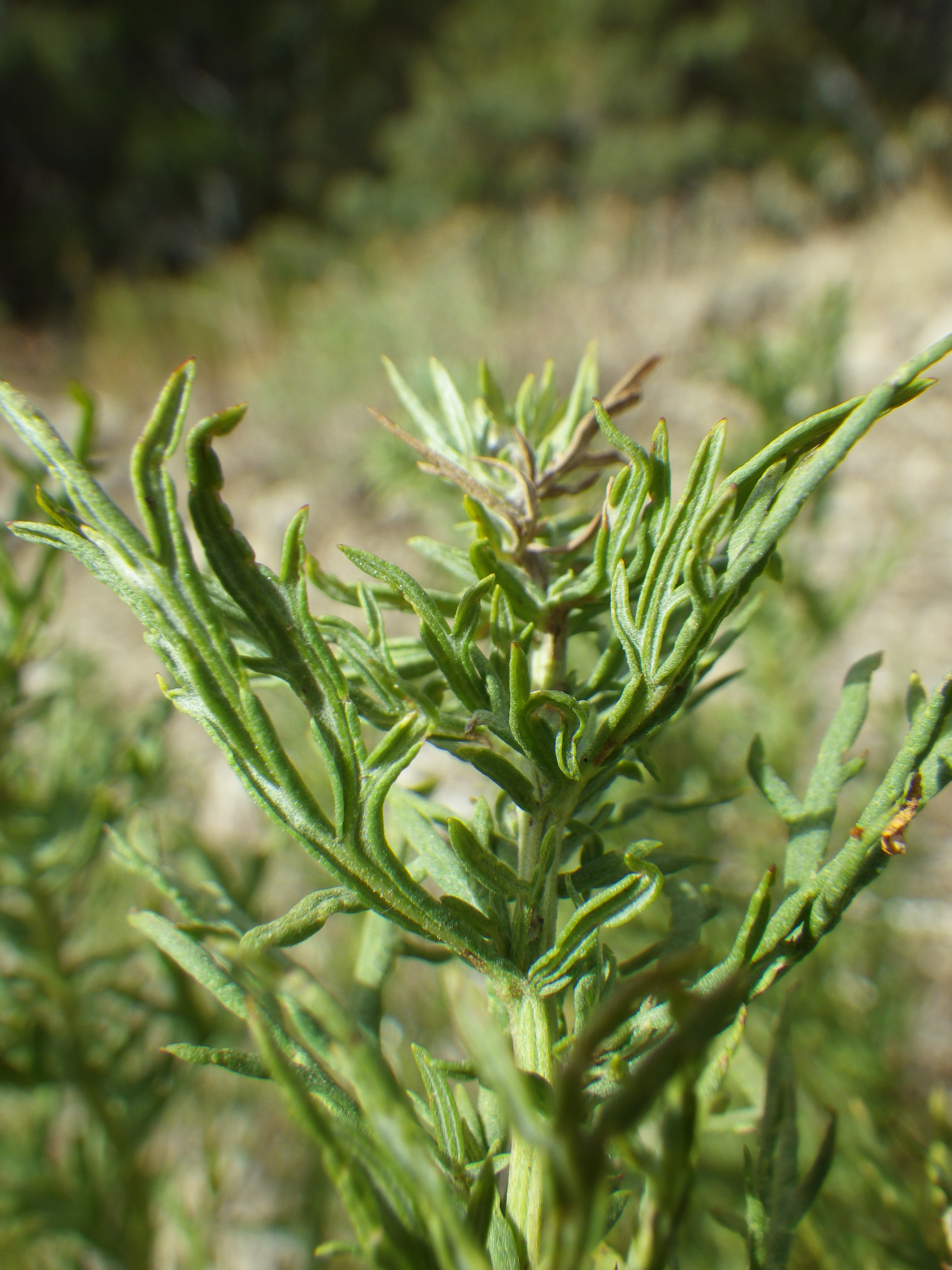 This rhizomatous herbaceous Artemisia is common in the Bridger Mountain typically on scree and talus slopes. The narrow leaf segments with recurved margins and with the undersurface distinctly more white (glaucous) than the green upper surface are characteristic and serve to distinguish this species from Artmeisia ludoviciana incompta.